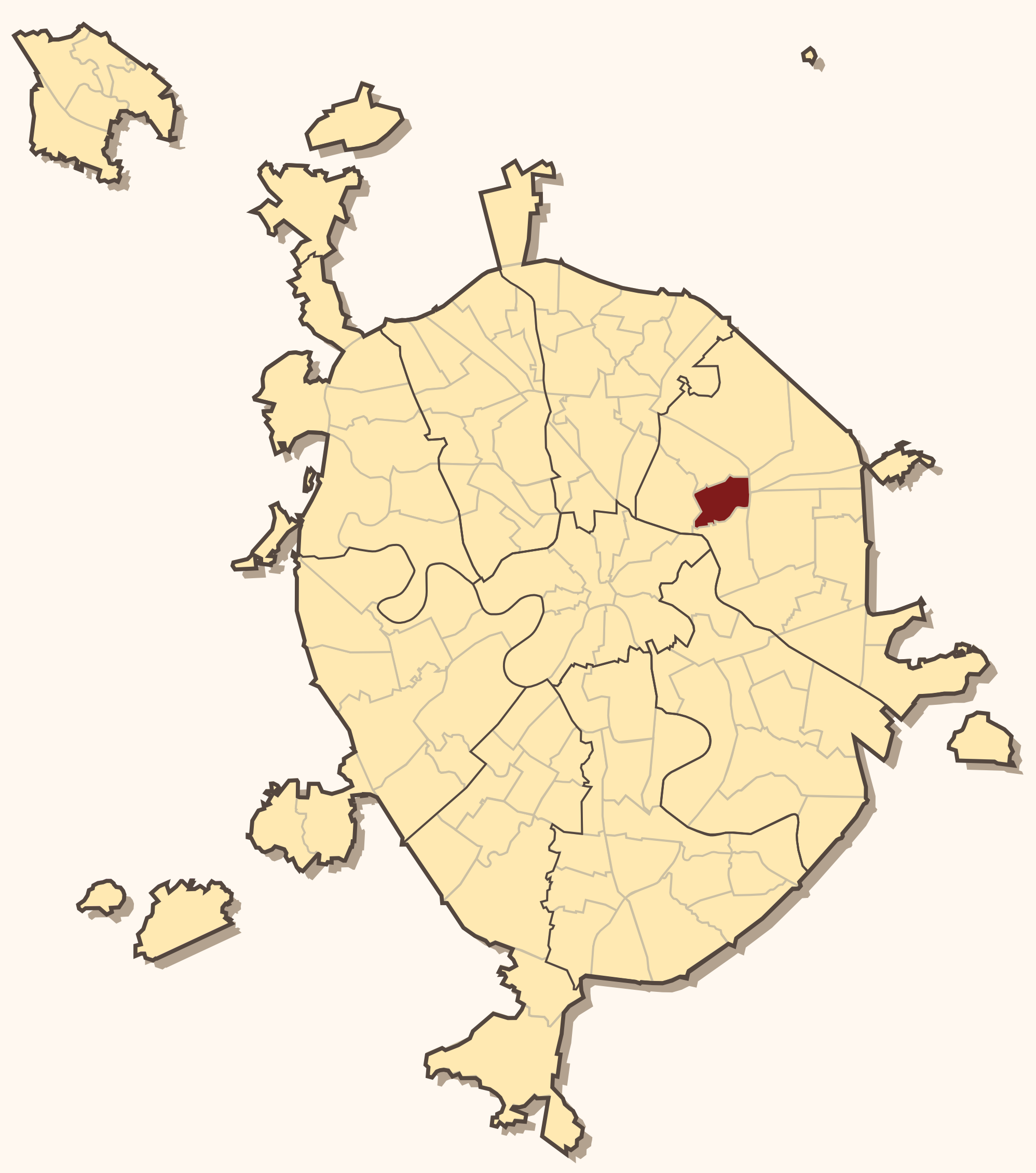 Moscow districts map